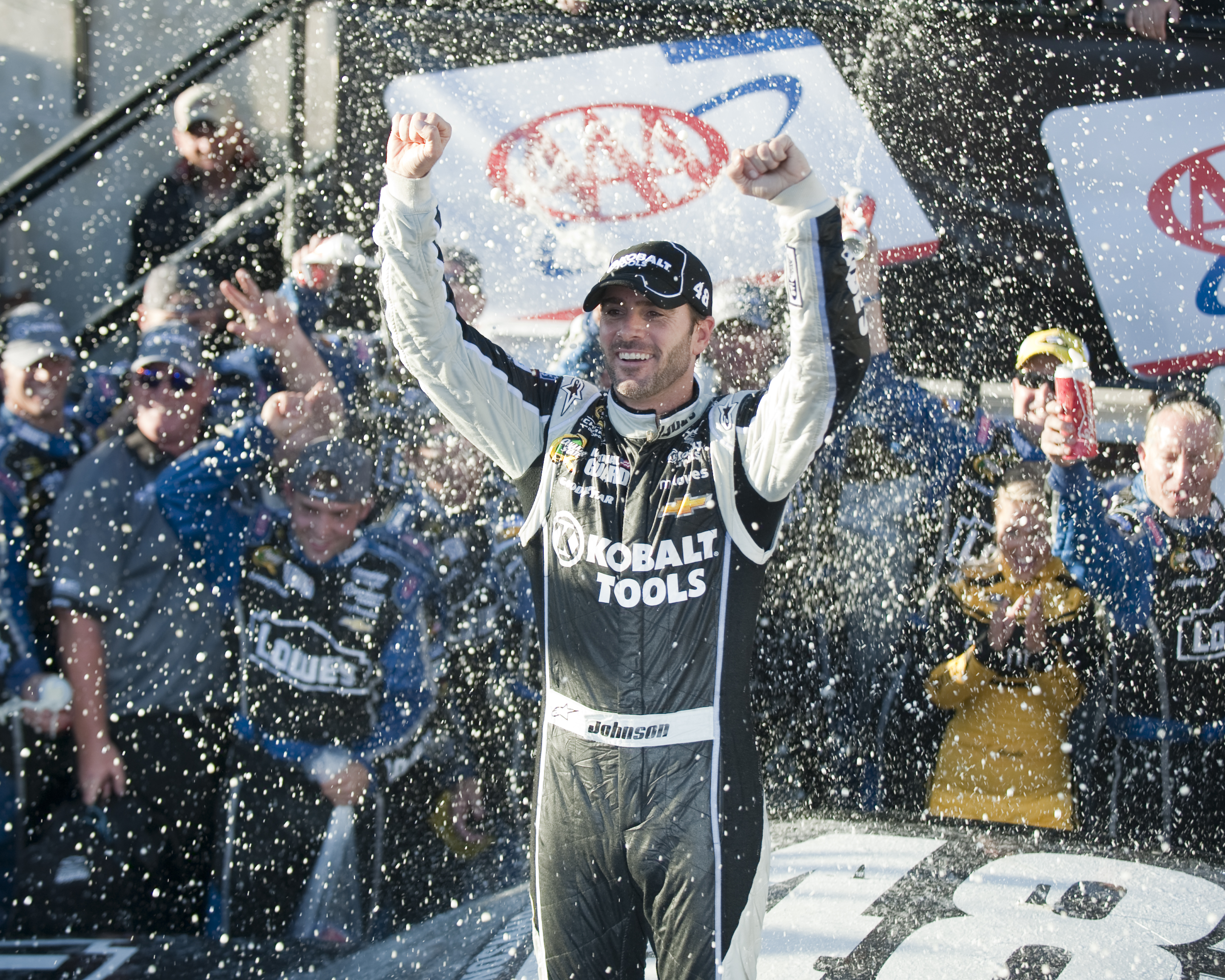 Jimmie Johnson, driver of the No. 48 Kobalt/Lowe’s Chevy, celebrates his win in victory lane after winning the AAA 400 Sept. 29, 2013, at Dover International Speedway in Dover, Del. Johnson, who started the race in eighth place, won at Dover for a record-breaking eighth time, surpassing NASCAR Hall of Famers Richard Petty and Bobby Allison. (U.S. Air Force photo/Senior Airman Jared Duhon)